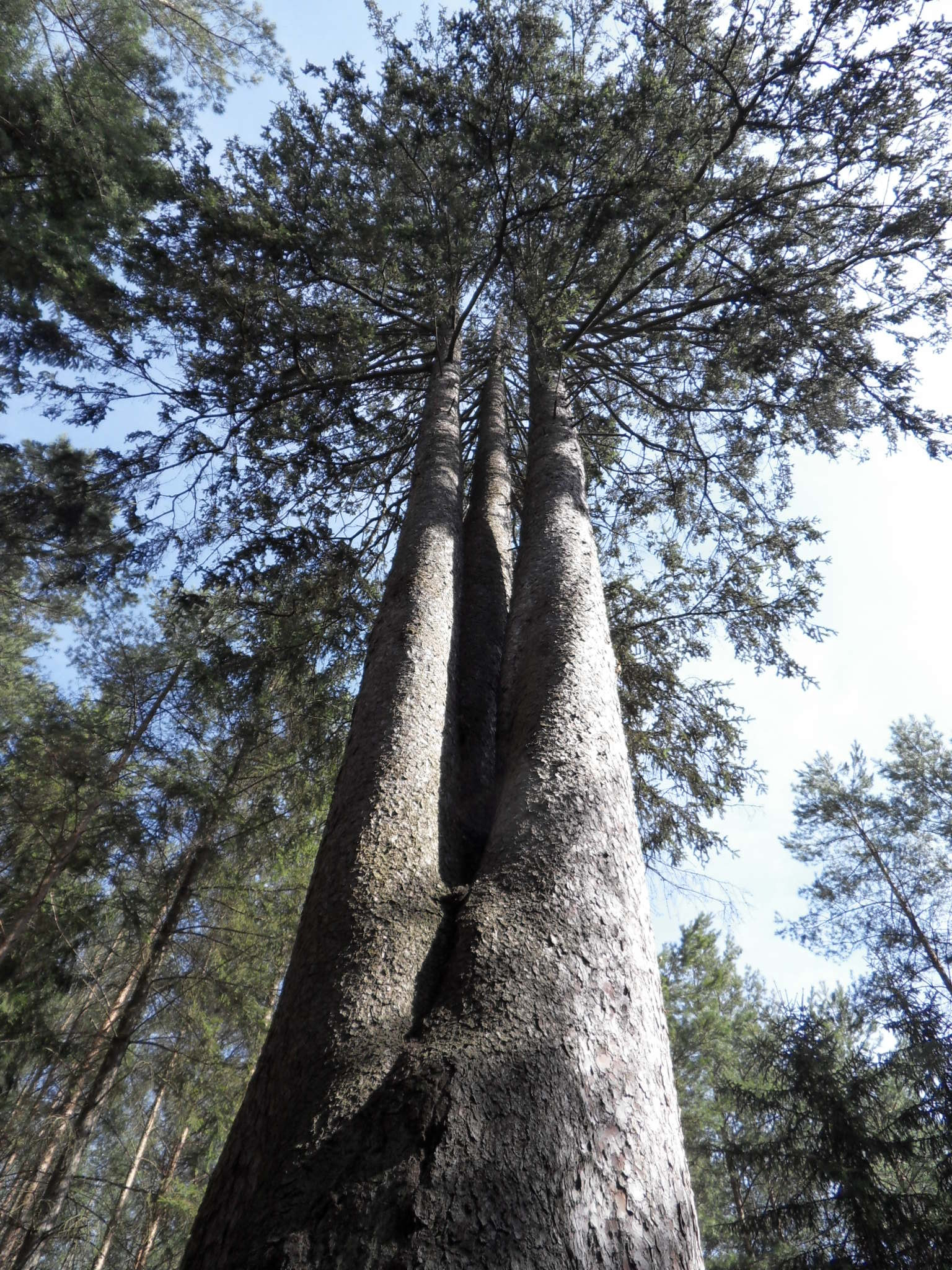 The spruce with three trunks in Lány close to Plzeň